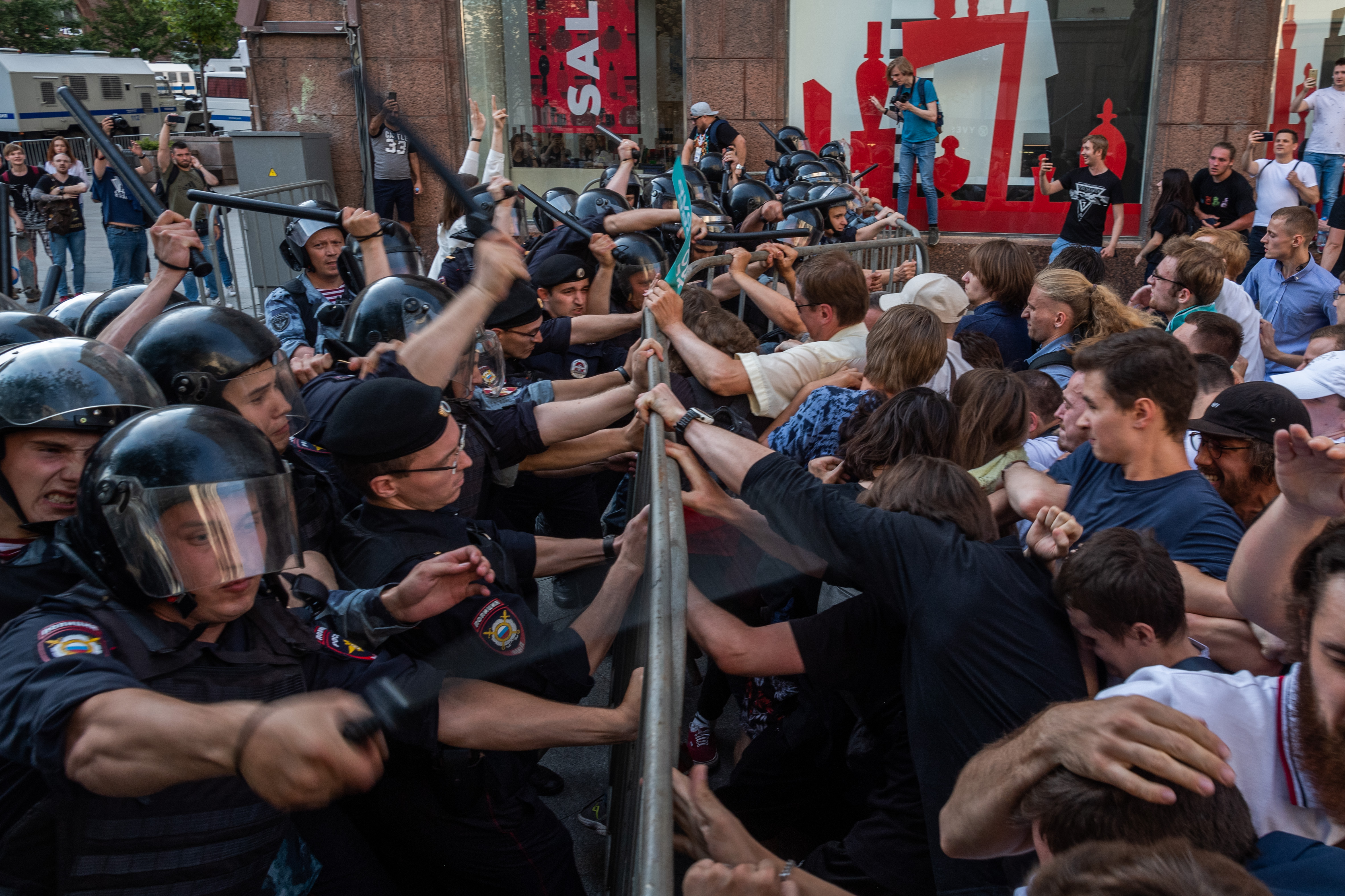 Rally in support of opposition candidates for deputies of the Moscow City Duma.